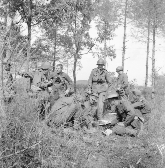 Yongju area, North Korea, In the foreground, seated left and leaning forward, Brigadier Basil Aubrey Coad , Commander of the 27th British Commonwealth Infantry Brigade, pores over a map with Lieutenant Colonel (Lt Col) Man, Commander 1st Battalion Middlesex Regiment (with moustache) and 2/37504 Lt Col Charles Hercules Green (front, right), Commanding Officer (CO) of the 3rd Battalion, The Royal Australian Regiment (3RAR). The men are discussing the engagement, known as the Battle of the Apple Orchard, in which 3RAR had just defeated a large force of North Koreans and broken through to the beleaguered Americans of the 3rd Battalion, 187th Airborne Regiment, US Army. Wearing helmets, several members of this American unit are standing in the background. On 1 November 1950 Lt Col Green died of wounds caused by shellfire while he was asleep in his tent near the Tokchon River on 31 October. Sitting in the midground (right) and wearing a tam o' shanter cap is Major I D McN Reith, 1st Battalion, The Argyll and Sutherland Highlanders, who was killed on 27 October 1950.